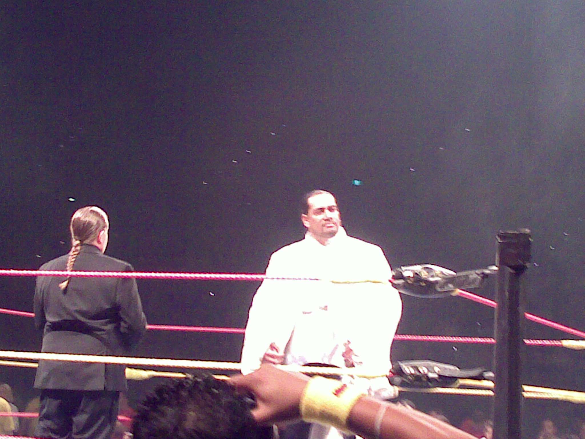 Wrestler Black Pearl (real name Reno Anoa'i)